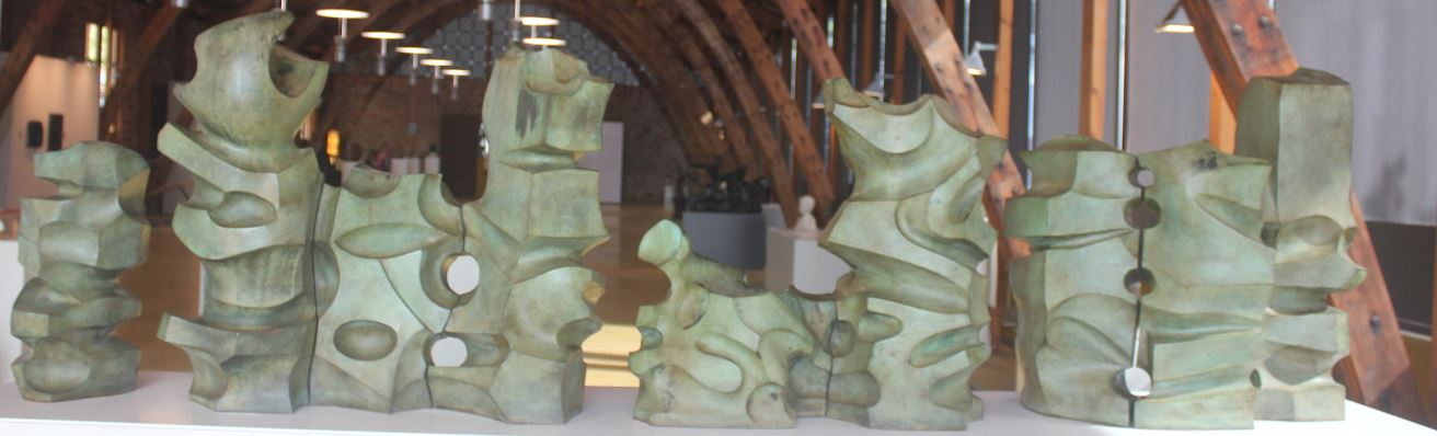 Marcel Martí: Les Medes